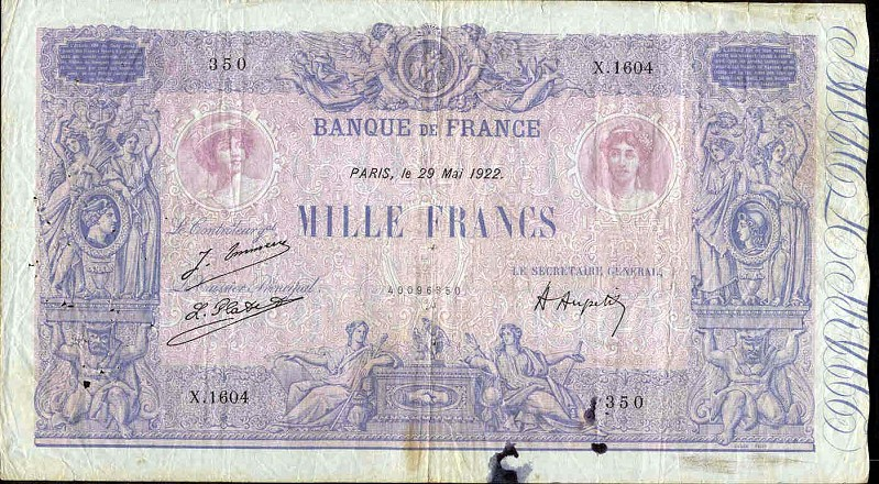 France 1000 Francs-1922